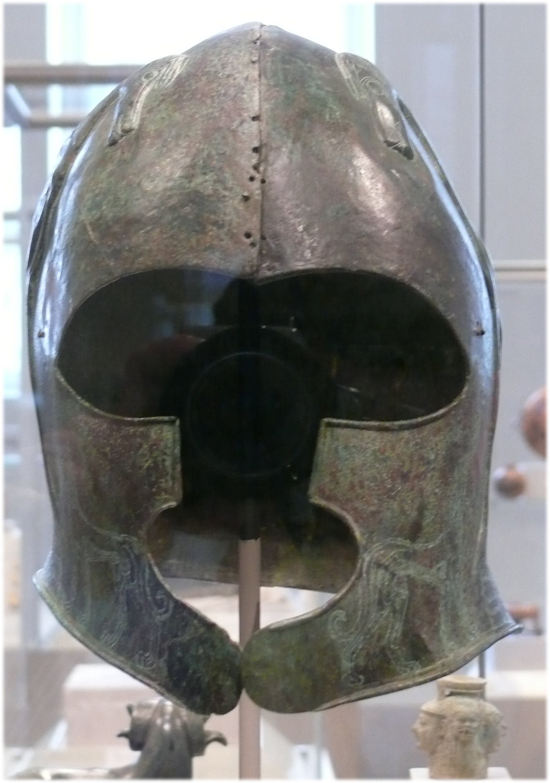 Cretan bronze helmet in the Metropolitan Museum of Art, New York, NY. Late seventh century BC Gift of Norbert Schimmel Trust 1989.281.49-50